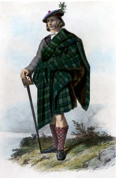 "MacLeod". A plate illustrated by R. R. McIan, from James Logan's The Clans of the Scottish Highlands, published in 1845.